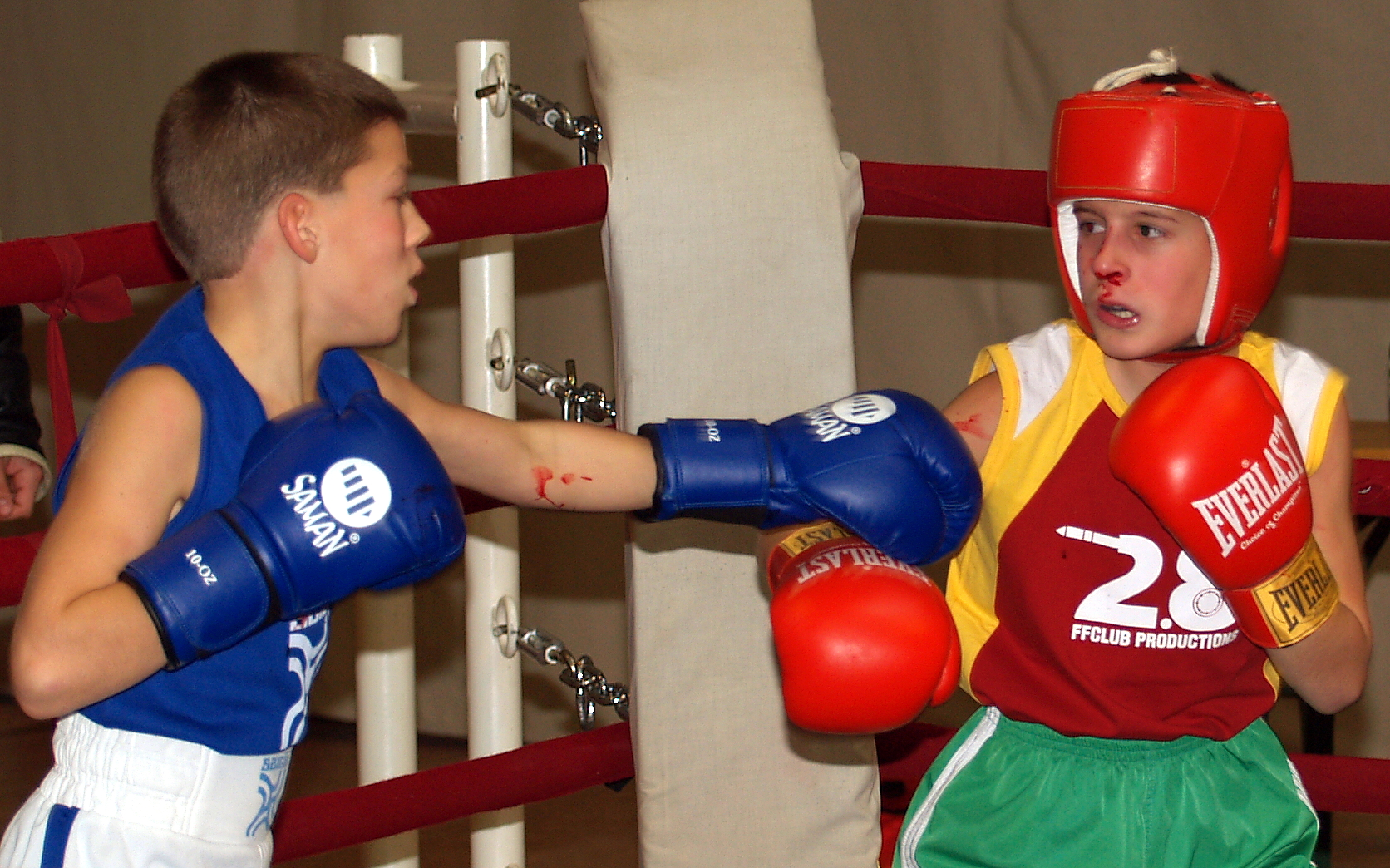 Boxing children. The right one seems to be injured.